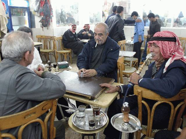 Playing cards in a coffeehouse, Damascus. Source: Antonio Milena/ABr. 01.Dec.2003 Photograph copied from the website of Agência Brasil, which states: The Agência Brasil makes images and photos available free of charge. To comply with existing law, we kindly request our users to list the credits as in the example: photographer's name/ABr. This photo appeared as 11589.jpg on 01.Dec.2003. The photo was downloaded, cropped, and resized by Hajor.